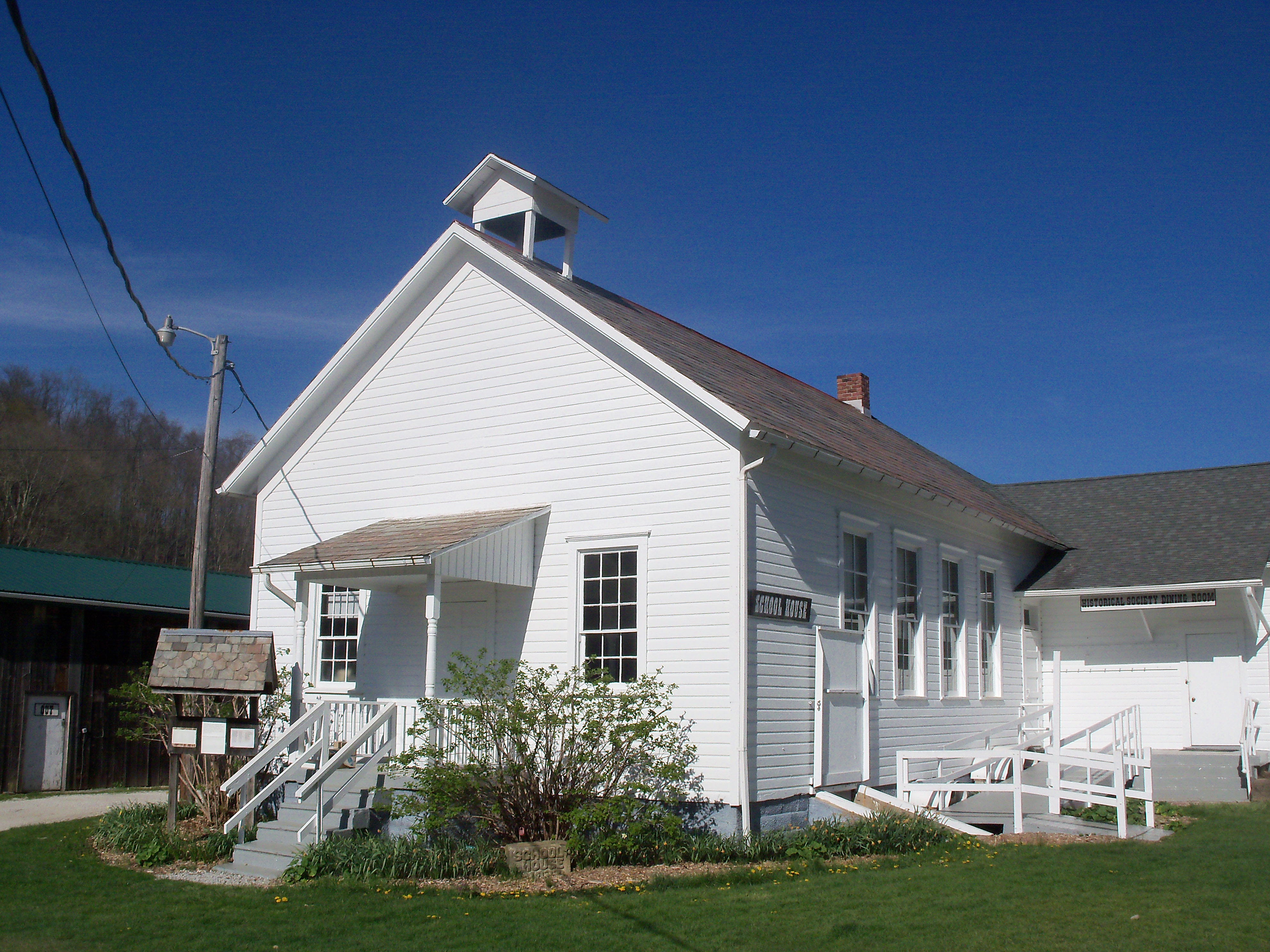 Petersburg, Carroll County, Ohio School, built 1921, abandoned in 1939.